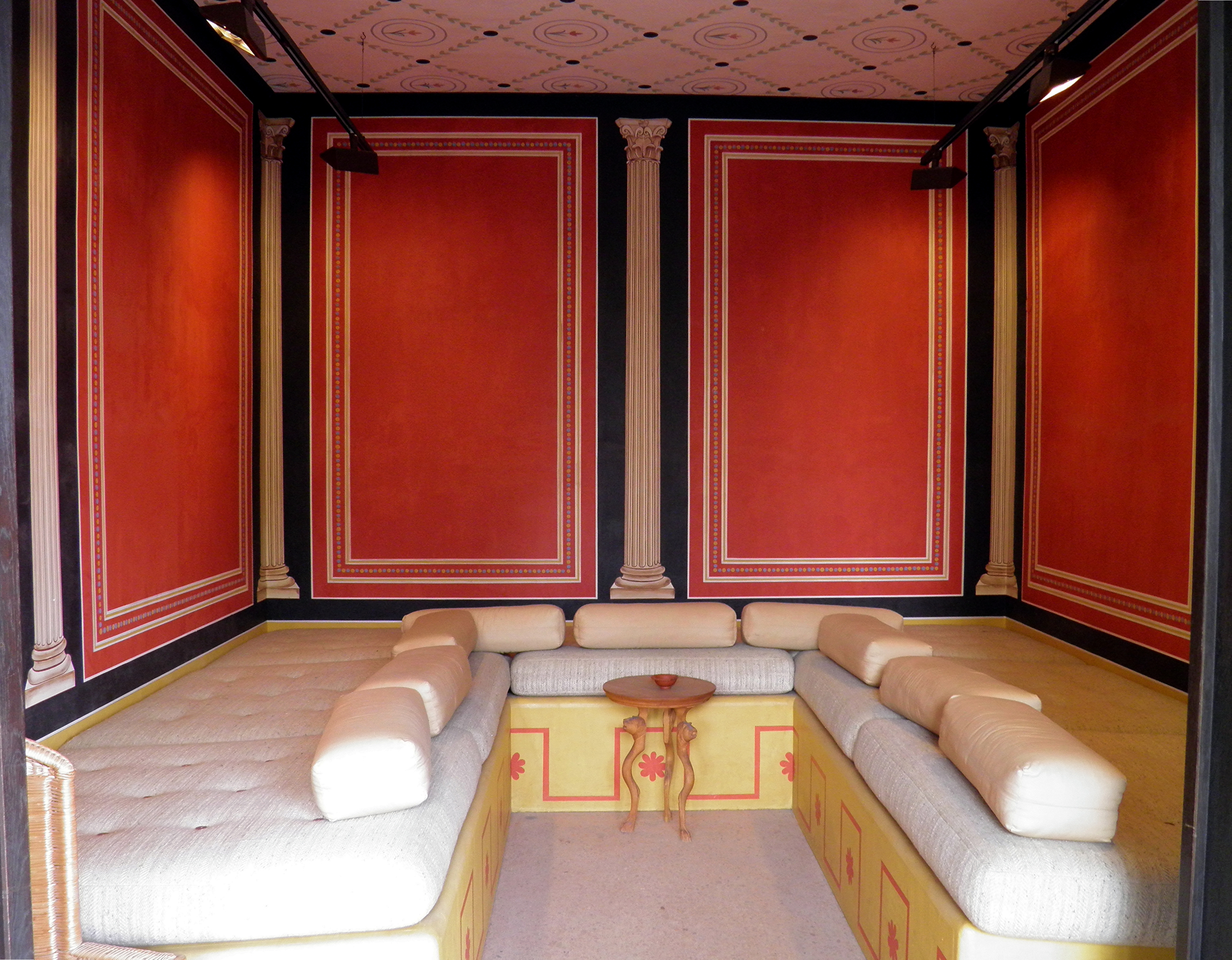 Reconstructed Dining Room containing three couches made of wood, Xanten, Germany